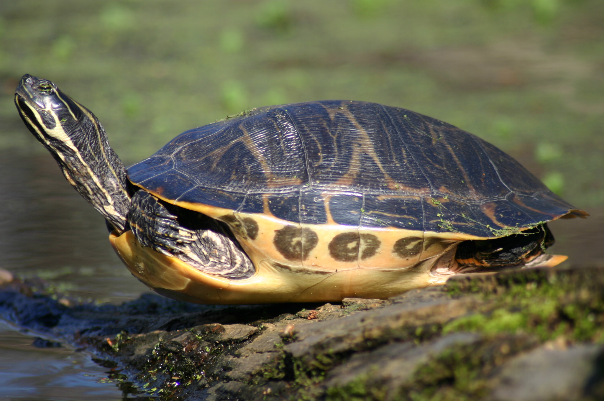 Coastal Cooter (Pseudemys concinna floridana) with neck up at Merchant's Millpond State Park